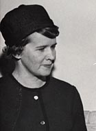 Photograph of the Finnish textile designer Kirsti Ilvessalo (1920–).